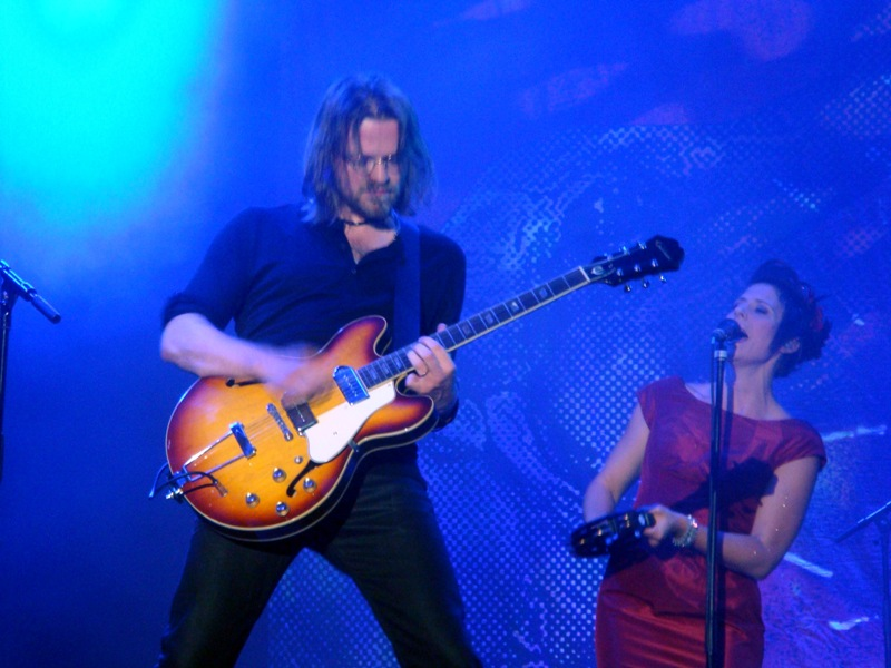 Roxette guitarist Christoffer Lundqvist and Malin Ekstrand, backing vocals live in HAlmstad, 14 August, 2010